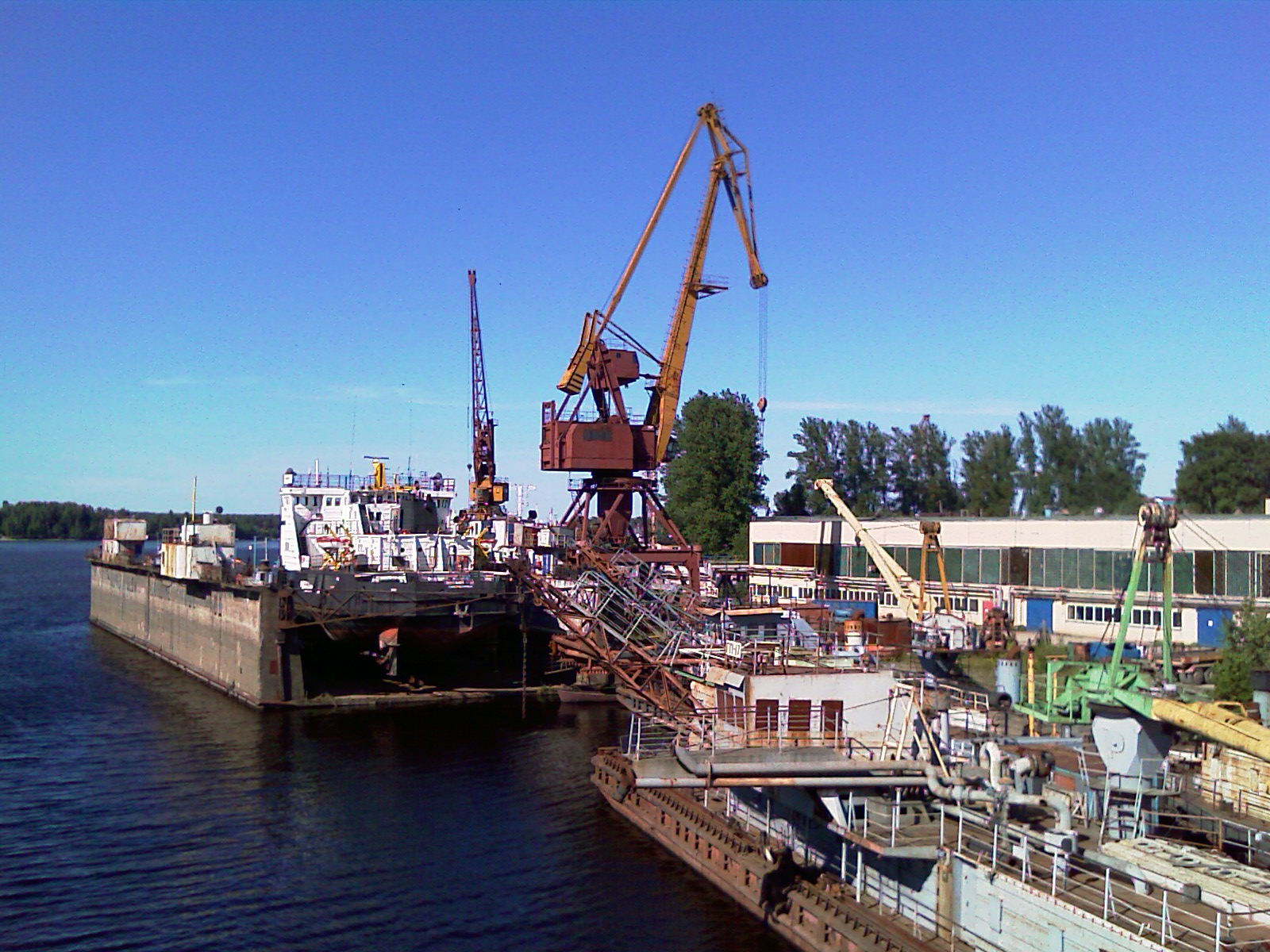 Floating dock at Tosna river estuary, Otradnoe town